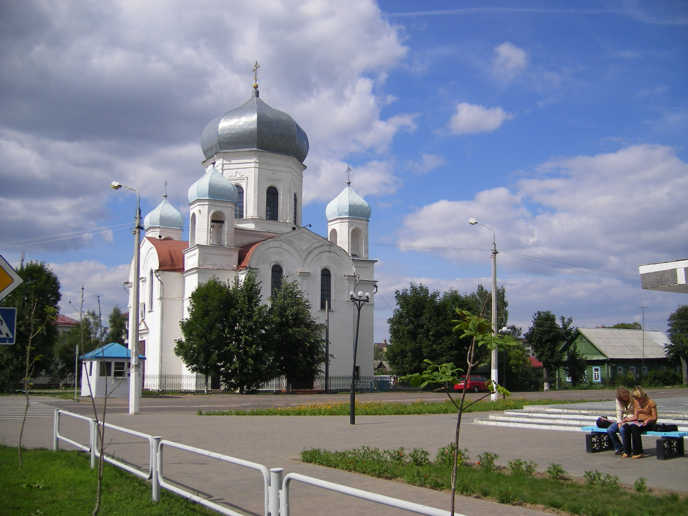 Shklov, Spaso-Preobrazhenskaya church